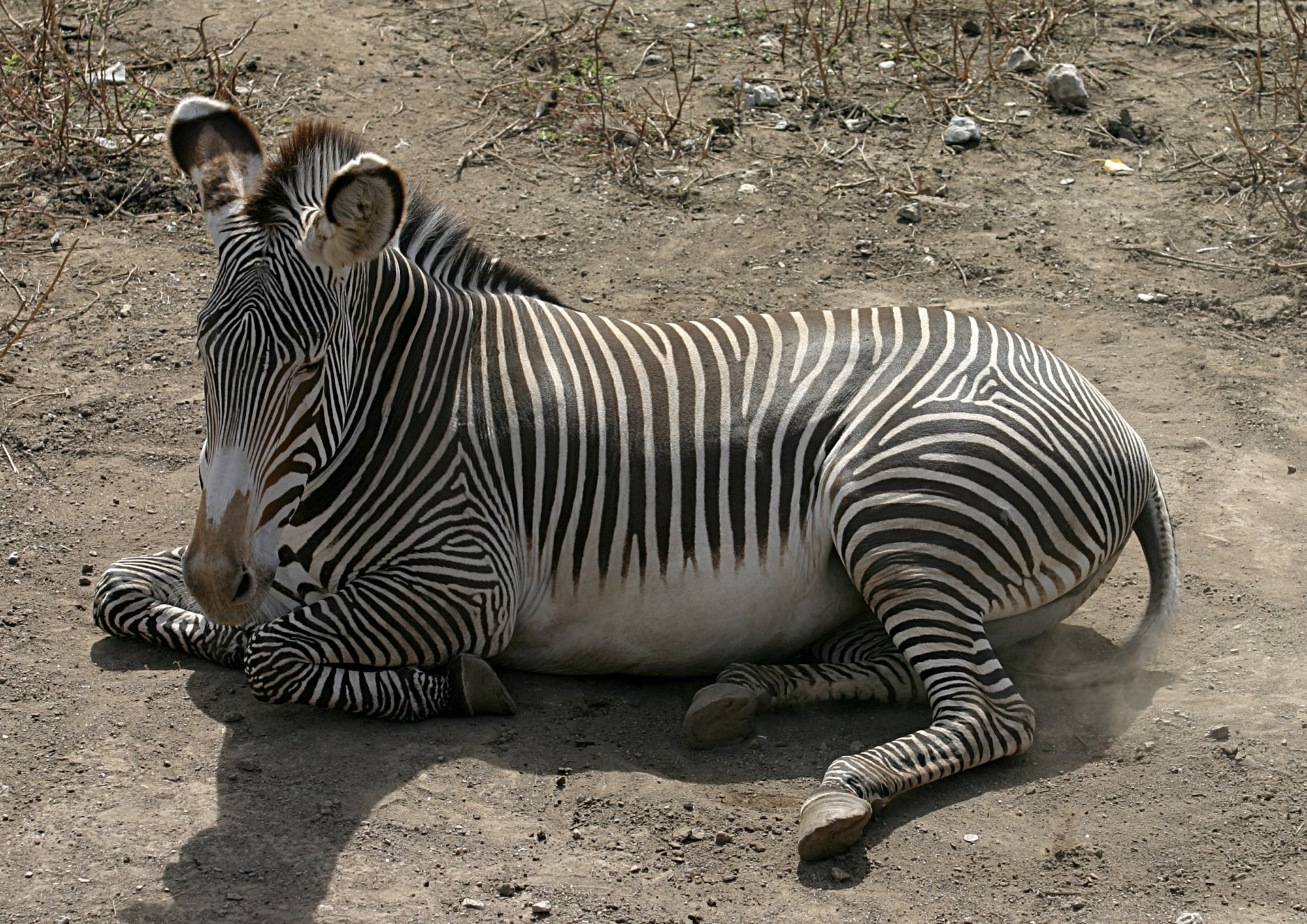 Grevy's/Imperial Zebra at the Henry Doorly Zoo in Omaha, Nebraska.